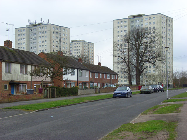 Wensley Road in Reading, Berkshire, England. This area, including three 15 story blocks of flats and Wensley Road itself, was developed as local authority housing in the late 1950s and 1960s. For more information see the Wikipedia article Coley Park.